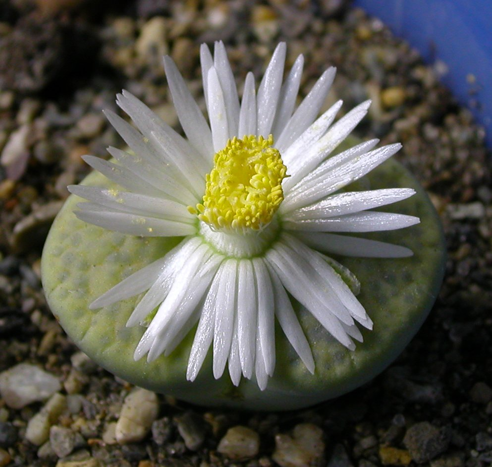 Flowering Lithops fulviceps cv. 'Aurea' (plant collection of Ivan I. Boldyrev, Berdsk, Russia)